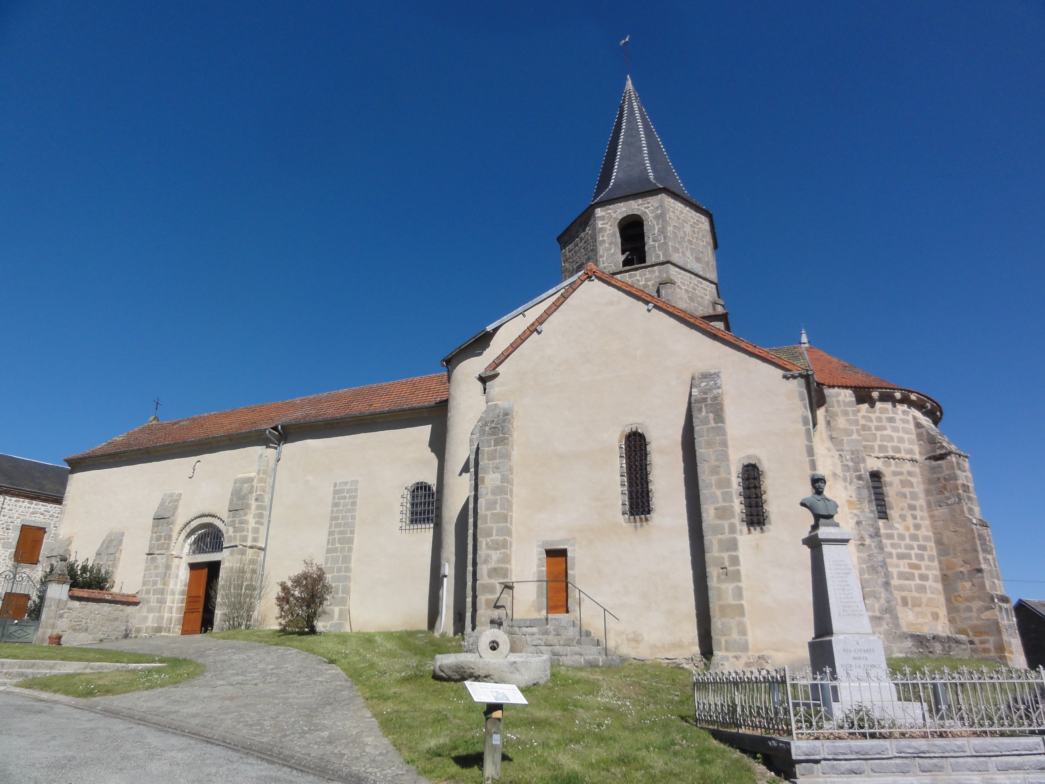 Vergheas (Puy-de-Dôme) église Notre Dame de l'Assomption